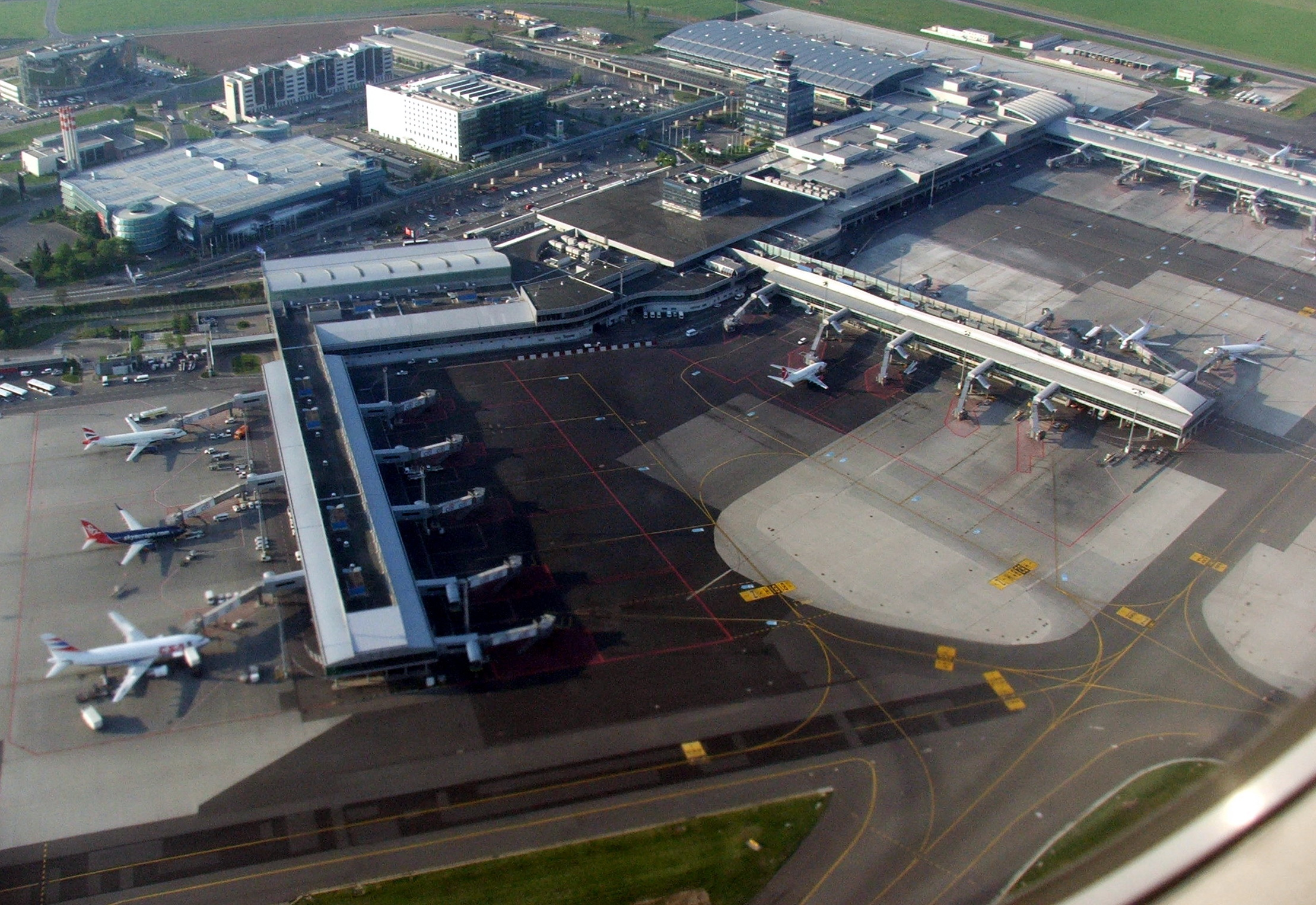 View on Prague - Ruzyně airport shortly after take off - 2008.